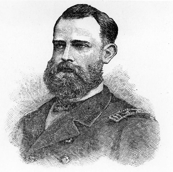 Image taken from the US Navy historical image library (